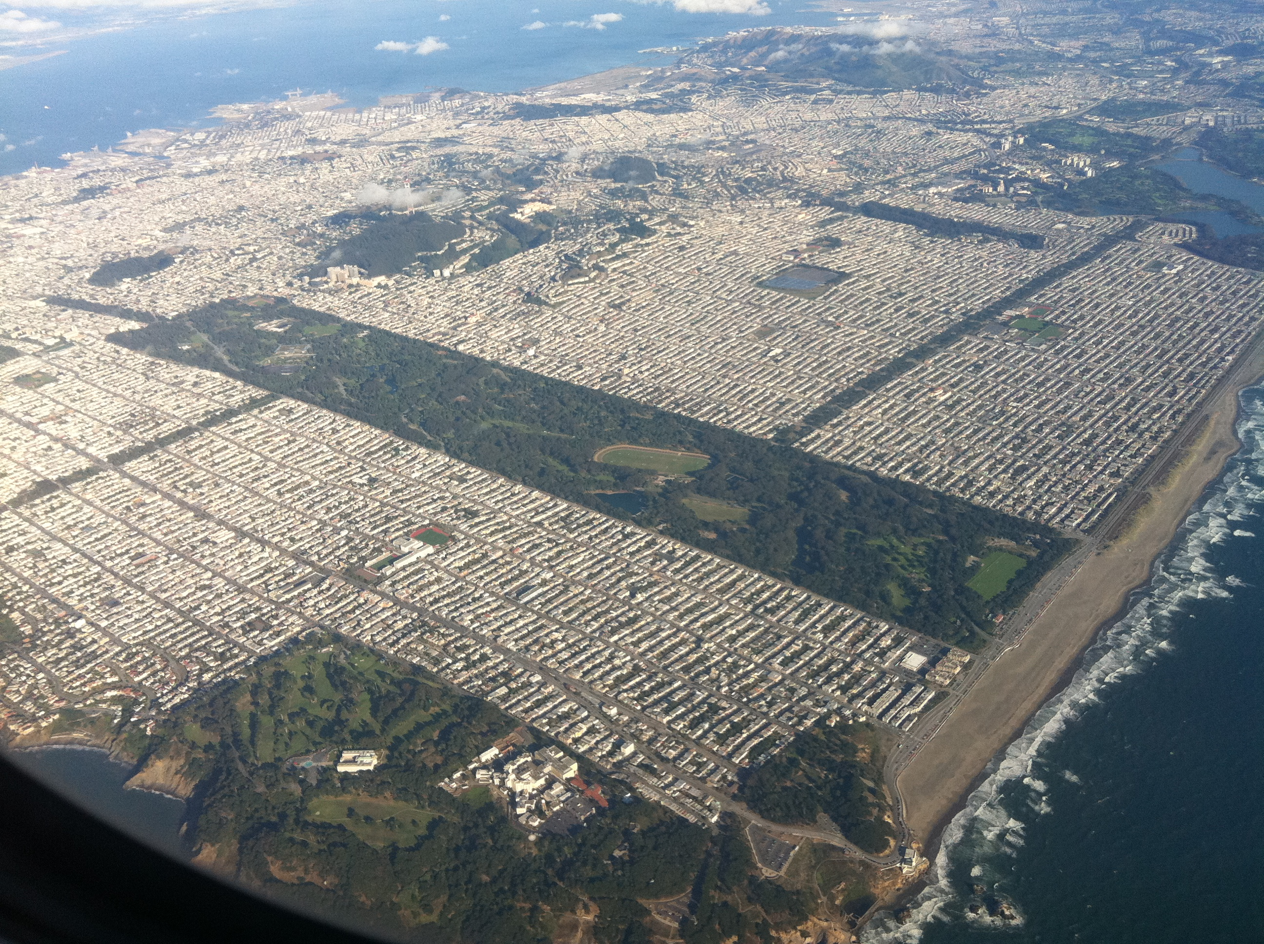 Aerial view of the Golden Gate Park in San Francisco, CA, USA